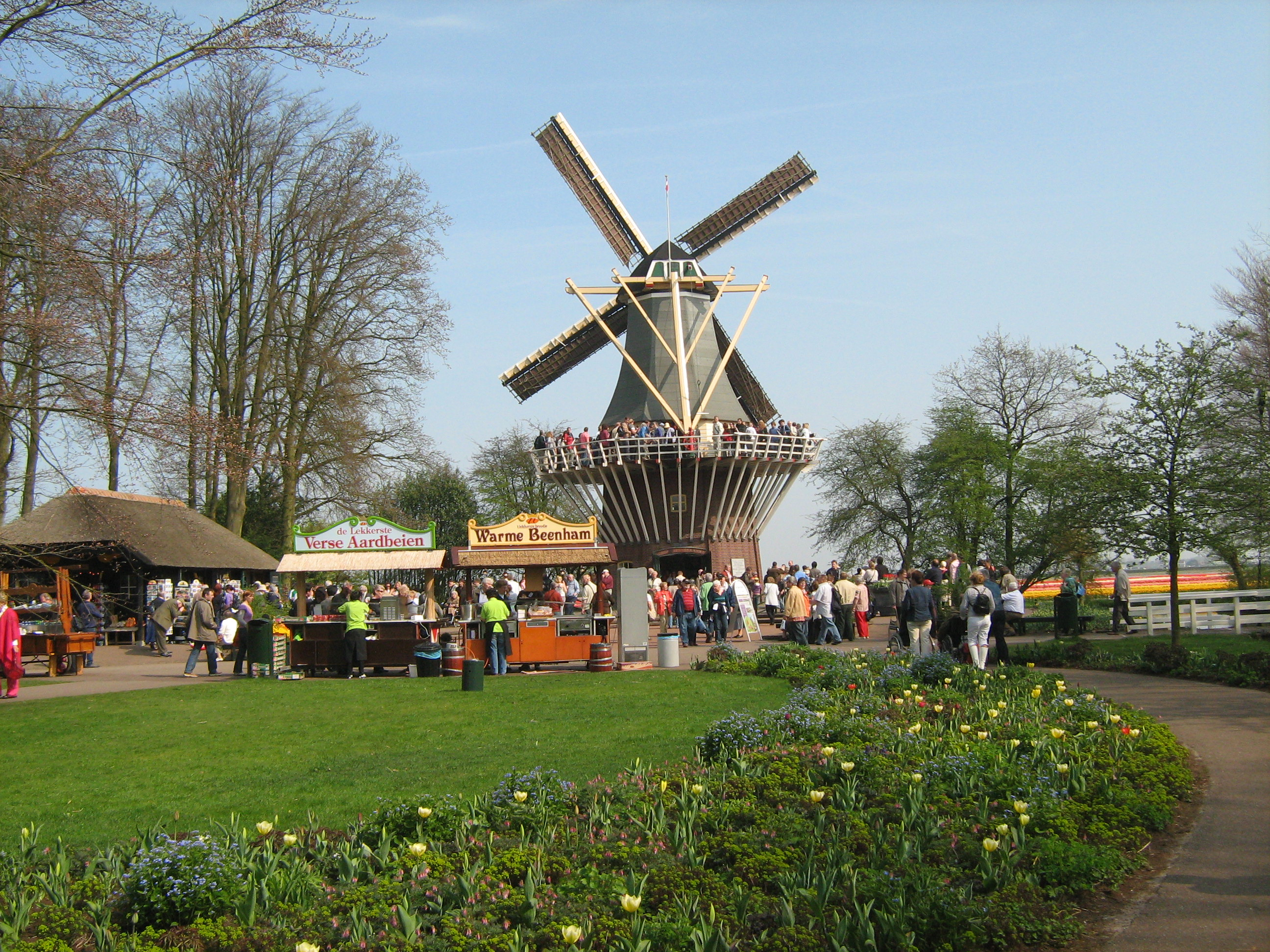 The wind mill in Keukenhof. April 2009.